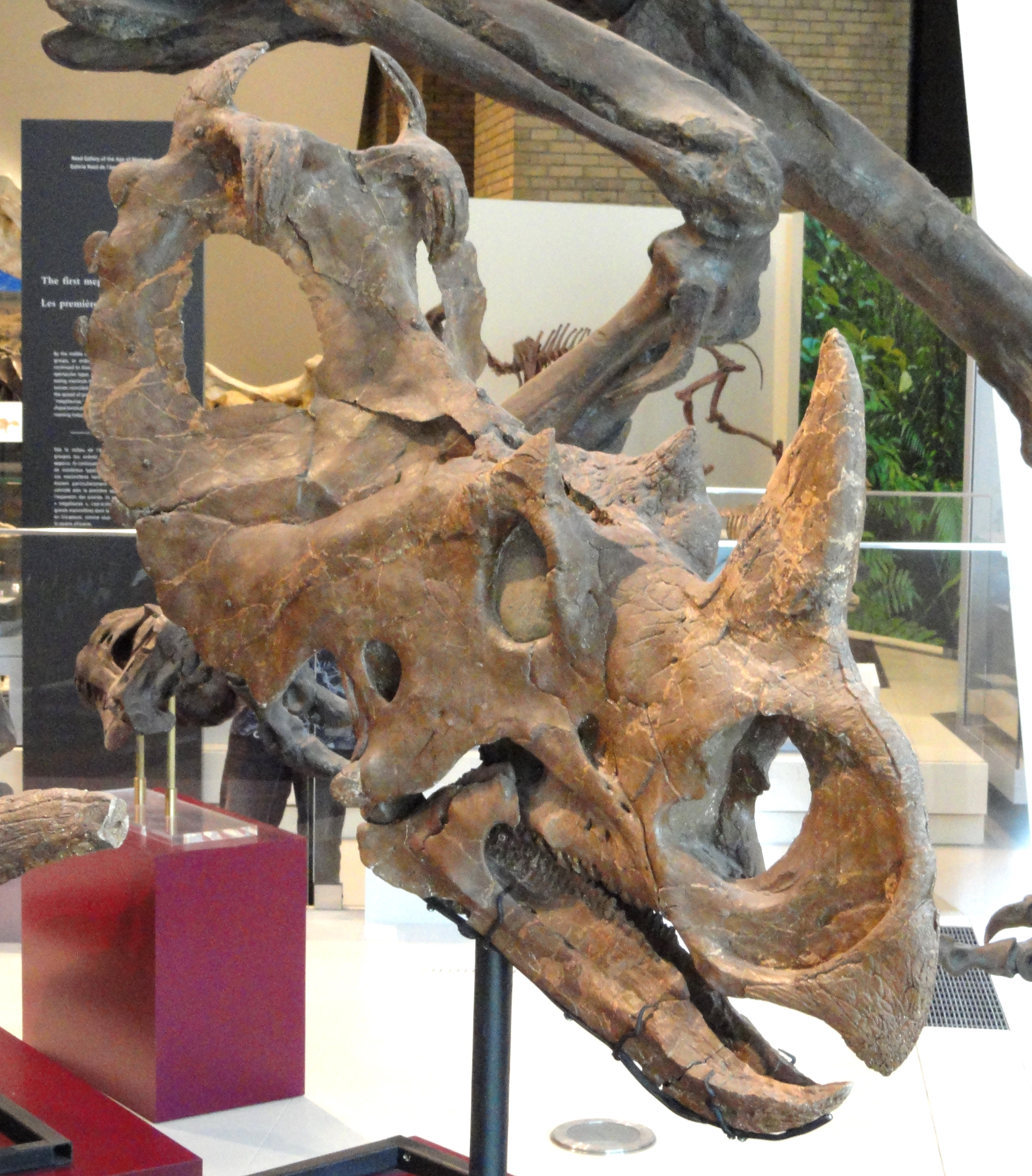 Centrosaurus apertus specimen ROM 767. Exhibit in the Royal Ontario Museum, Toronto, Ontario, Canada. This exhibit is old enough so that it is in the public domain, and photography was permitted in the museum. I took this photograph and release it into the public domain.